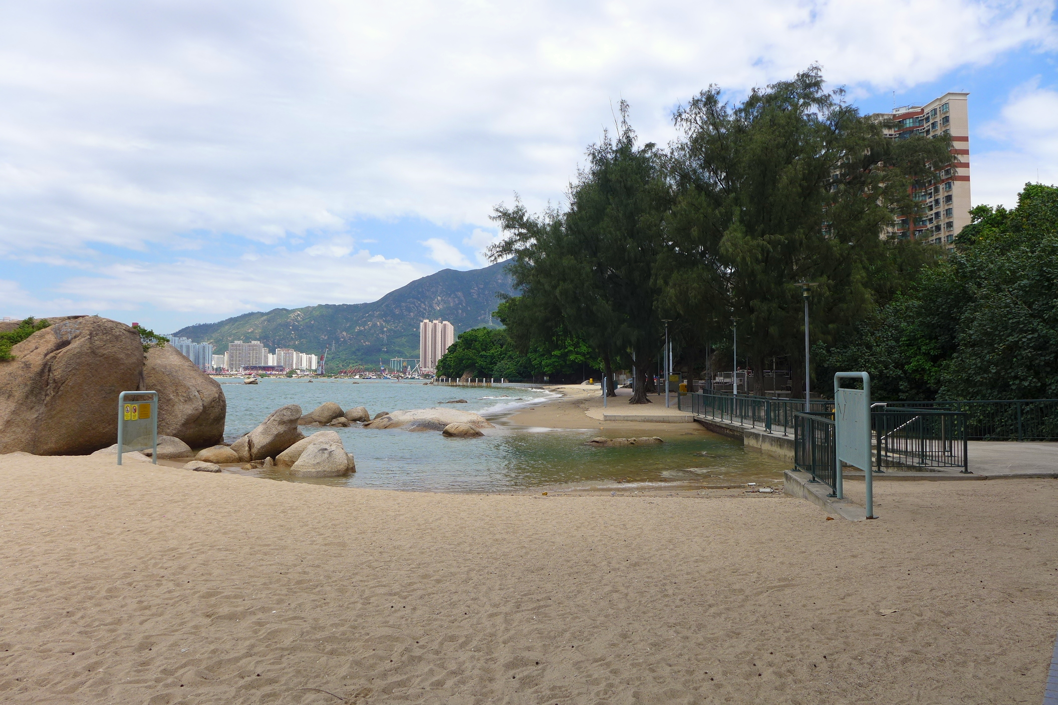 Cafeteria Old Beach